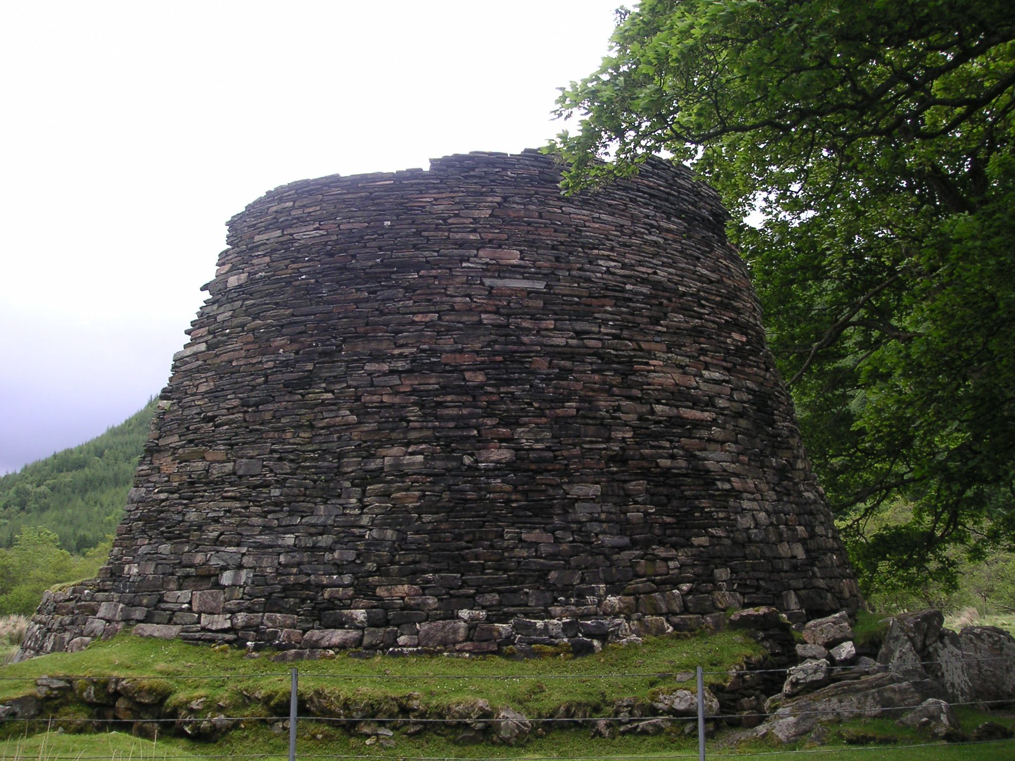 Dun Troddan Broch near Glenelg, Scotland